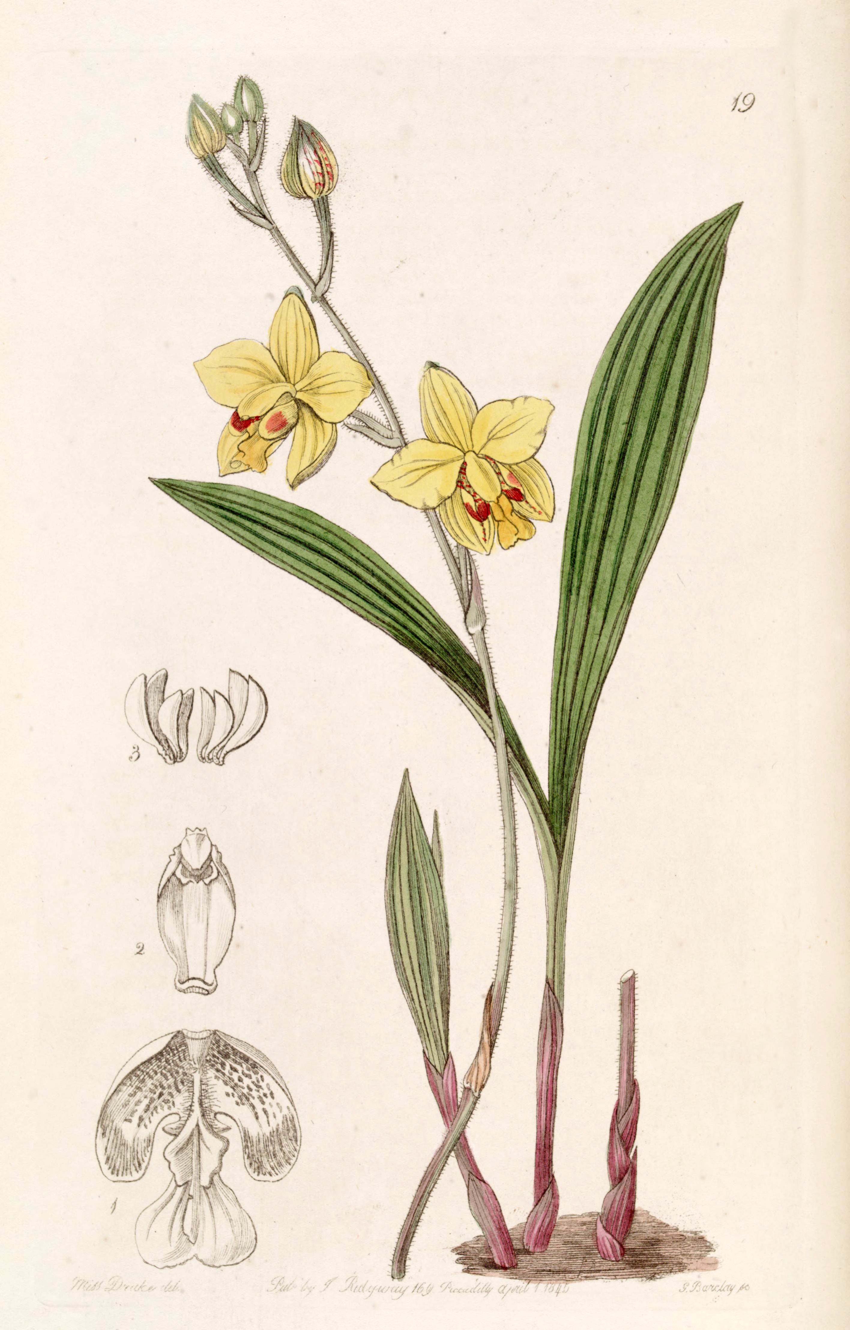 Spathoglottis pubescens (as syn. Spathoglottis fortunei, spelled by Lindley as Spathoglottis fortuni)